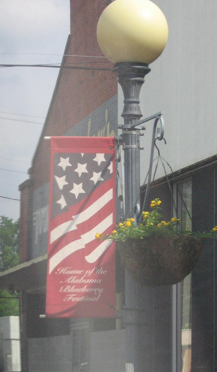 Alabama Blueberry Festival street banner in Brewton, Alabama